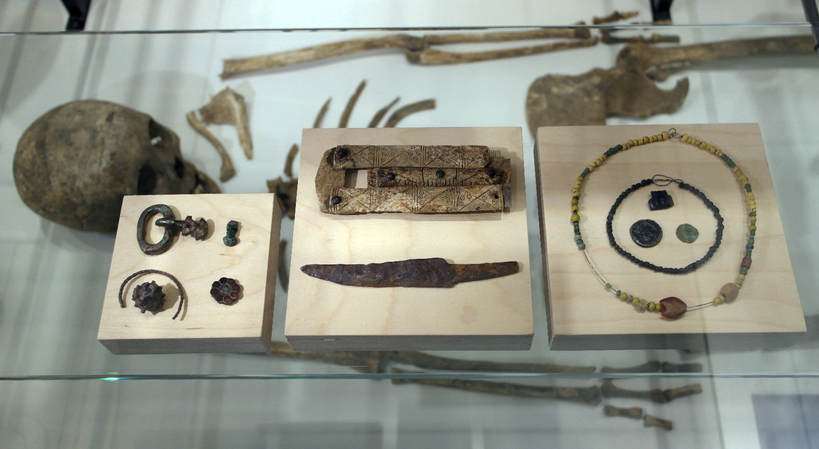 Early Medieval objects, found inside a woman's grave in Maastricht, now in the archaeological collections of the Limburgs Museum in Venlo, the Netherlands.